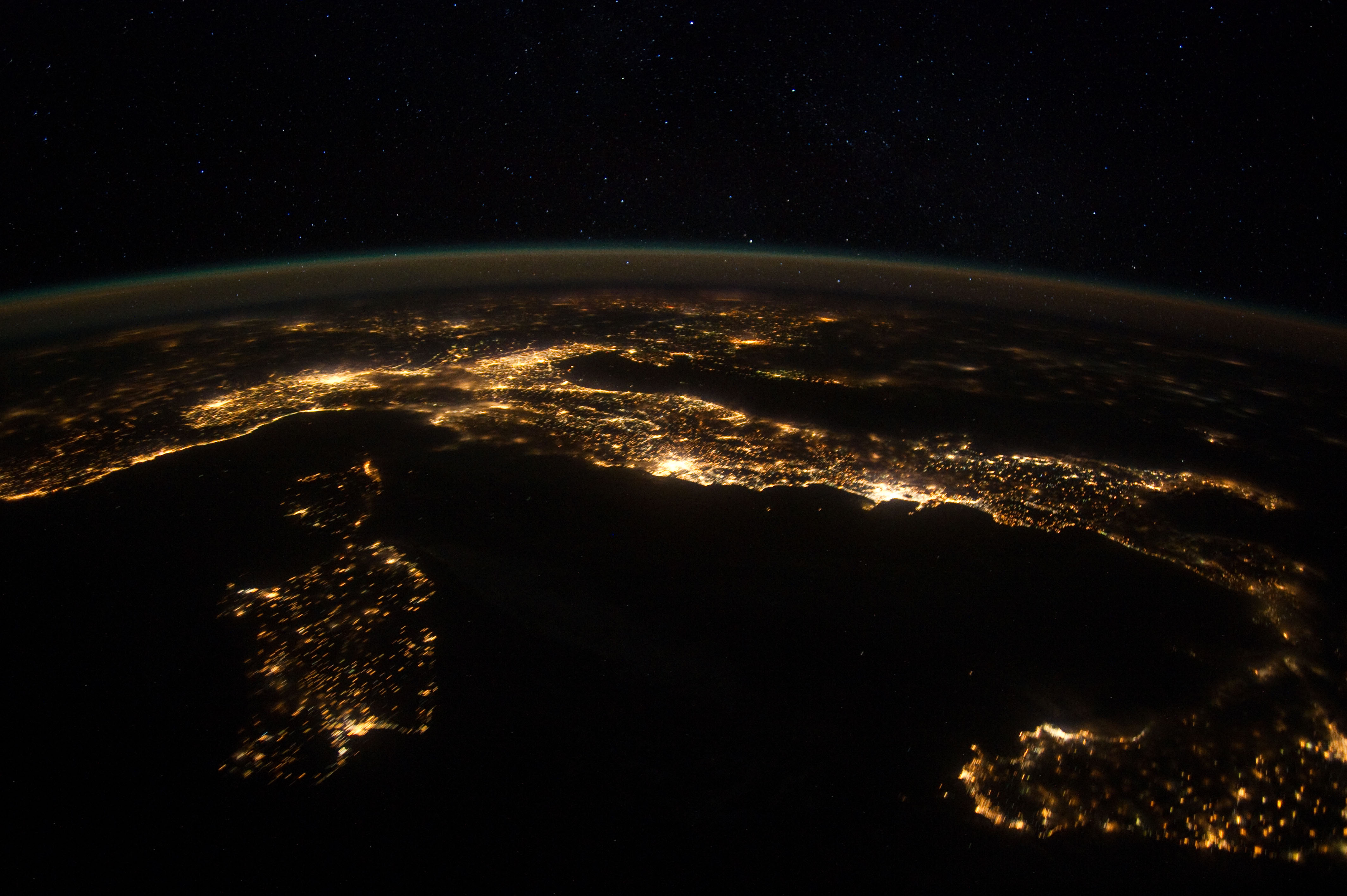 This nighttime panorama of much of Europe was photographed by one of the Expedition 30 crew members aboard the International Space Station flying approximately 240 miles above the Tyrrhenian Sea on Jan. 25, 2012. Most of the country of Italy is visible running horizontally across the center of the frame, with the night lights of Rome and Naples being visible to the center and right center, respectively. Sardinia, and Corsica are in the lower left quadrant of the photo, and Sicily is at lower right corner. The Adriatic Sea is on the other side of Italy, and beyond it to the east and north can be seen parts of several other European nations.